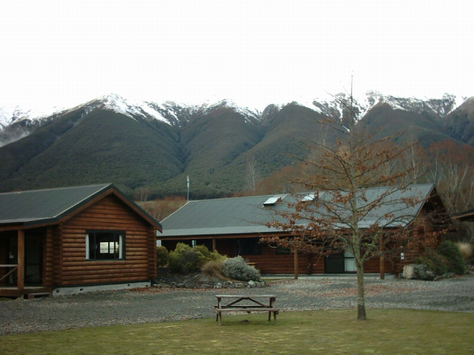 Youth hostel cottages at the back of the 'Yellow House' hostel in Saint Arnaud, New Zealand. Early winter with snow on the Saint Arnaud Range (?) east of the village.